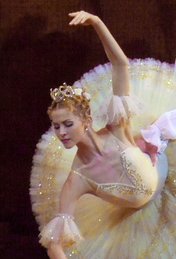 Alina Somova and David Hallberg in The Sleeping Beauty, 2010